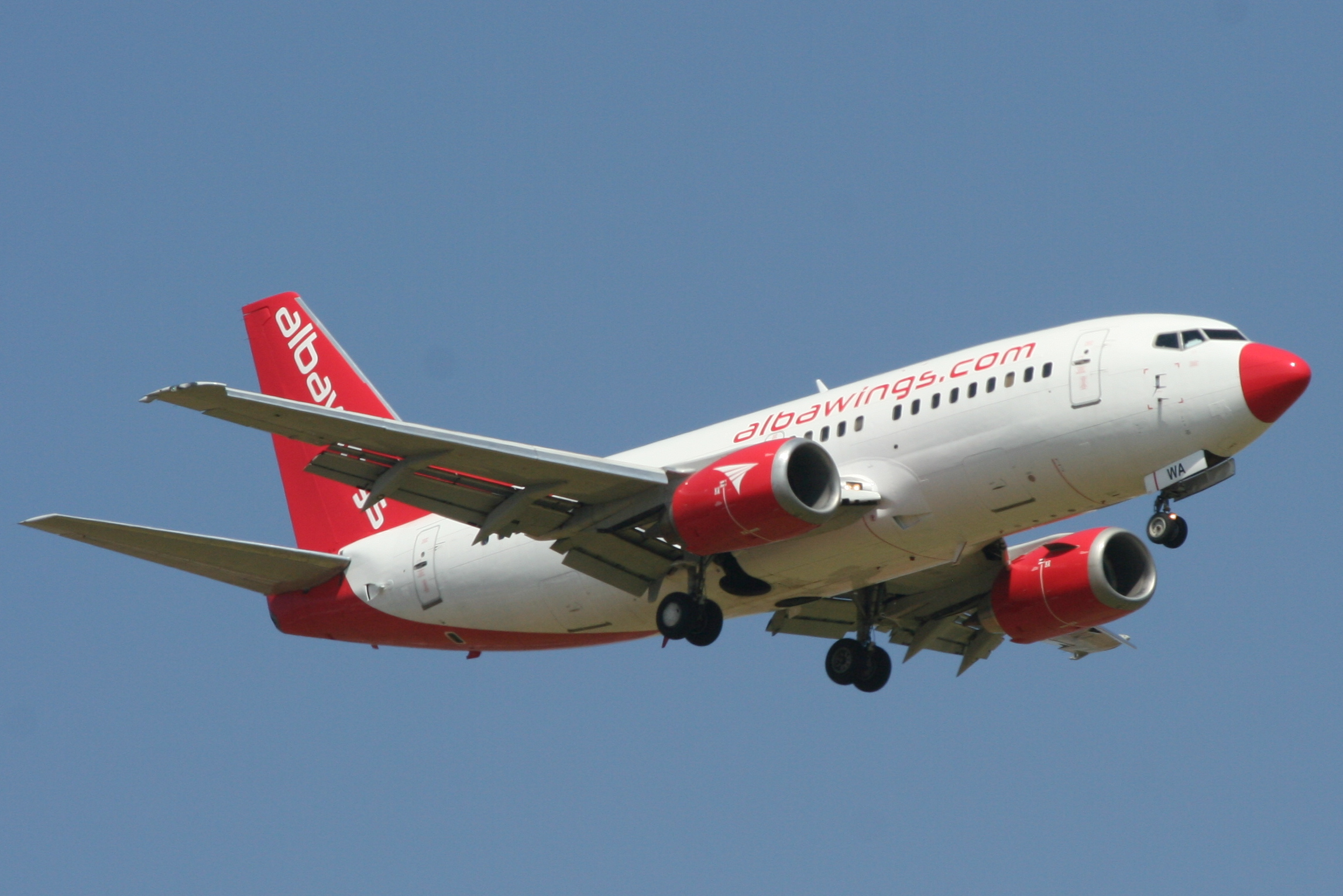 ZA-AWA, Boeing 737-500 of Albawings, landing at Ben Gurion International airport.